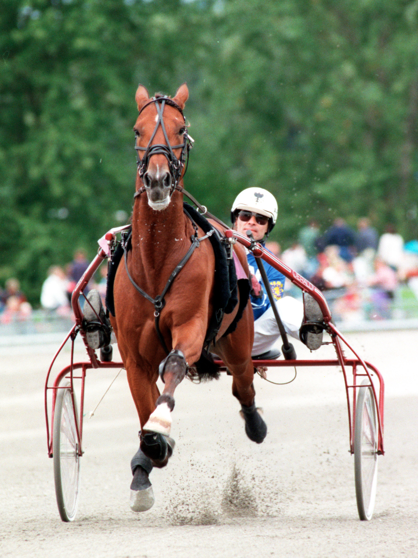 Viking Kronos and driver Lutfi Kolgjini. 1997.